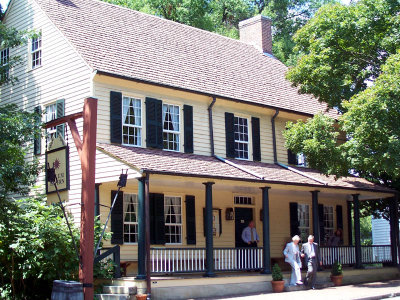 Old Salem, Winston-Salem, North Carolina. 8/27/06. James Willamor.